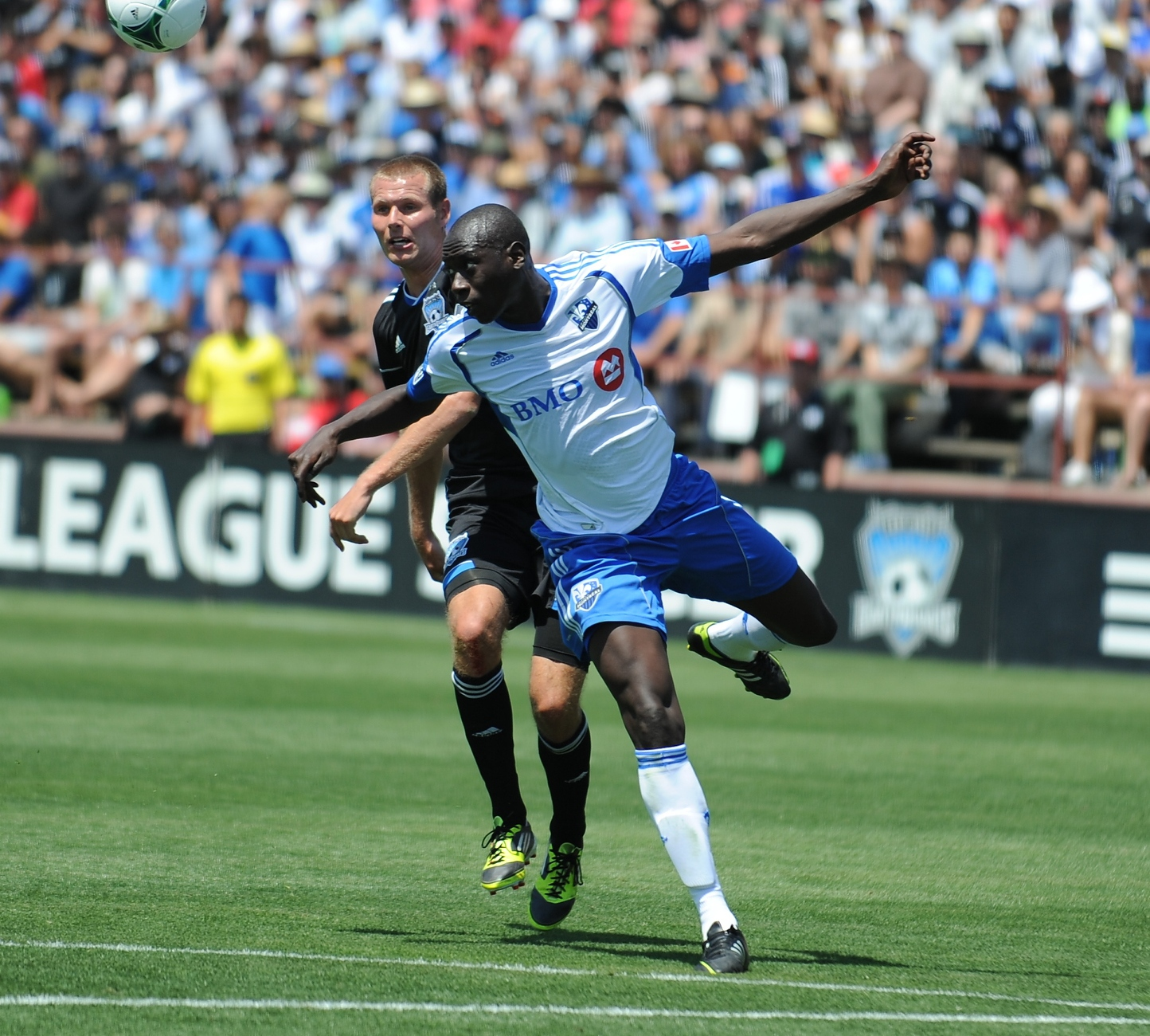 Hassoun Camara of the Montreal Impact on 4 May 2013 in a Major League Soccer (MLS) game at Buck Shaw Stadium against the San Jose Earthquakes.